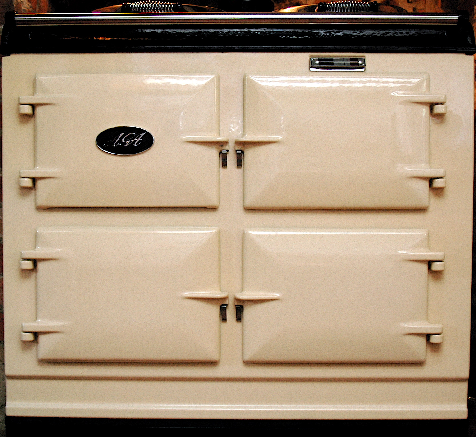 Front of a 2006 Aga GC3 in cream.